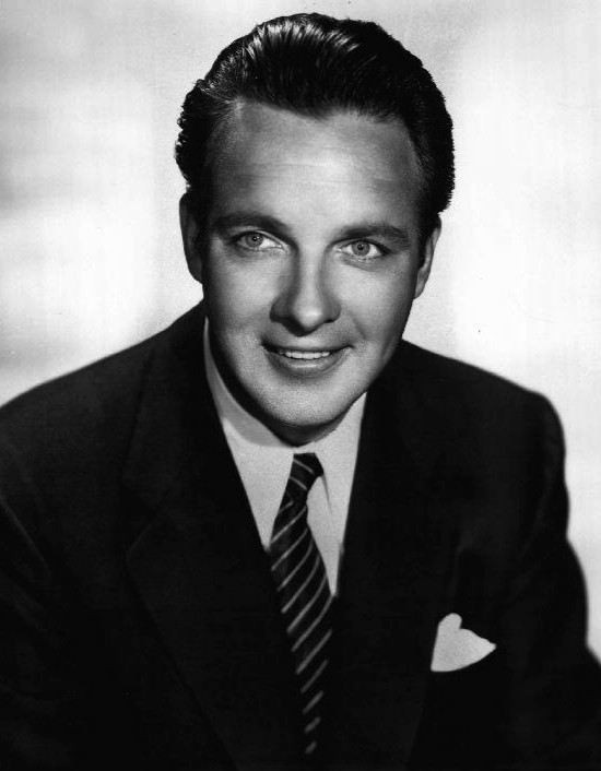 Photo of Bob Crosby from his CBS television program.